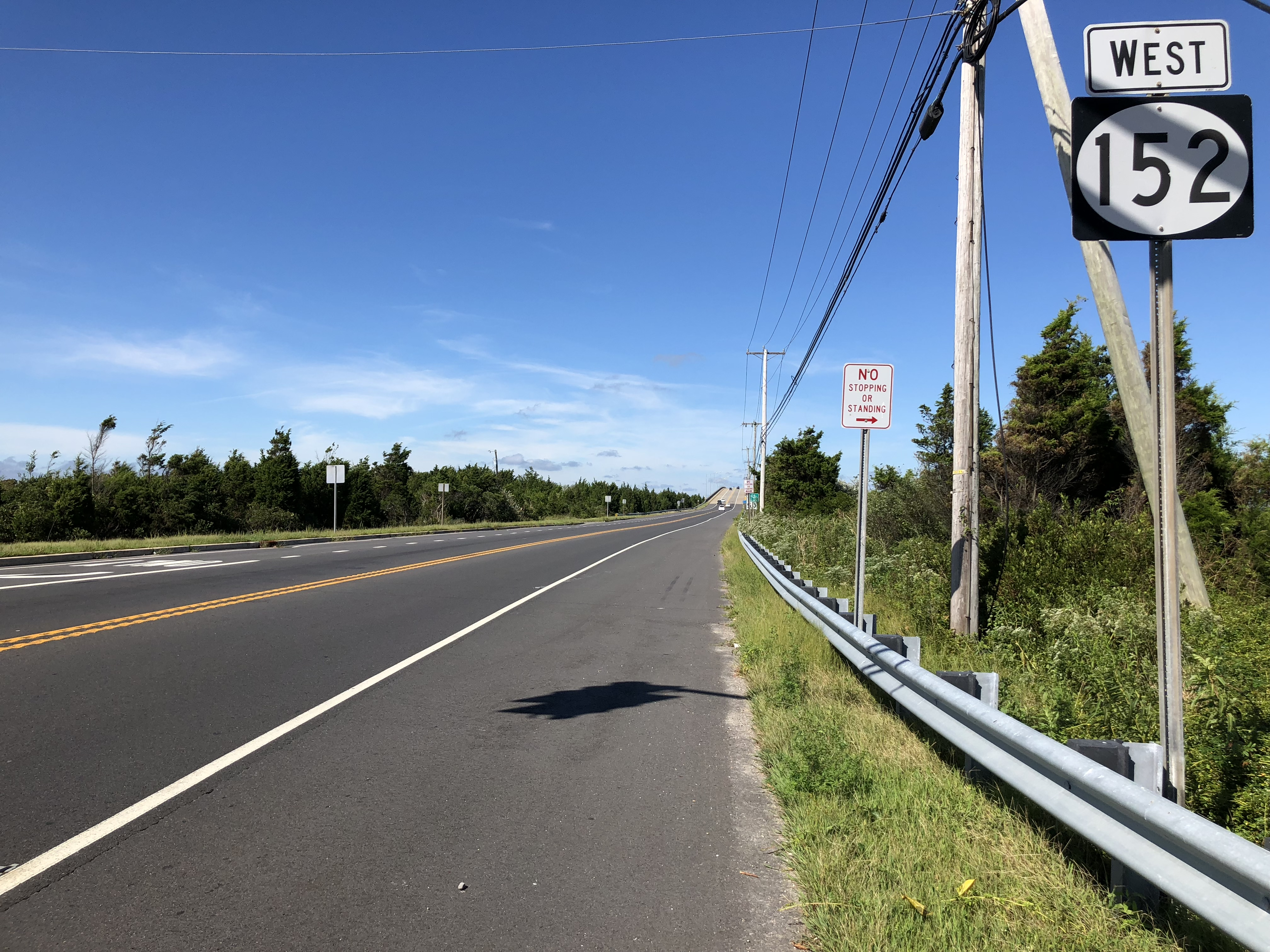 View west along New Jersey State Route 152 (Longport-Somers Point Boulevard) just west of Ocean City-Longport Boulevard in Egg Harbor Township, Atlantic County, New Jersey